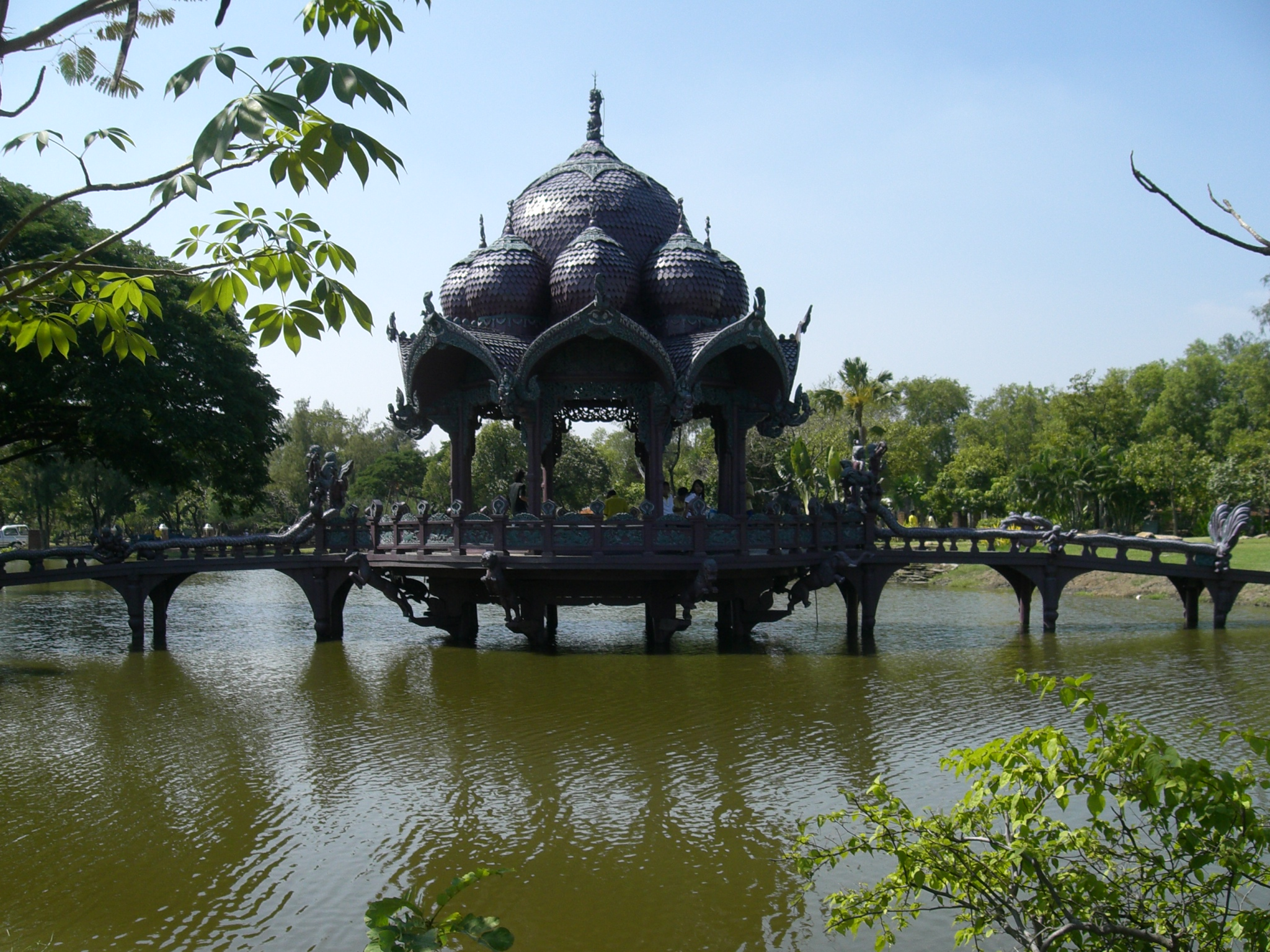 Inside Mueang Boran, the Ancient City south of Samut Prakan